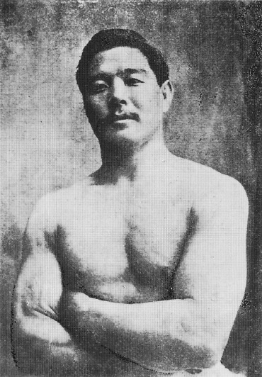 Japanese judoka, Mitsuyo Maeda, when he was 4th dan.